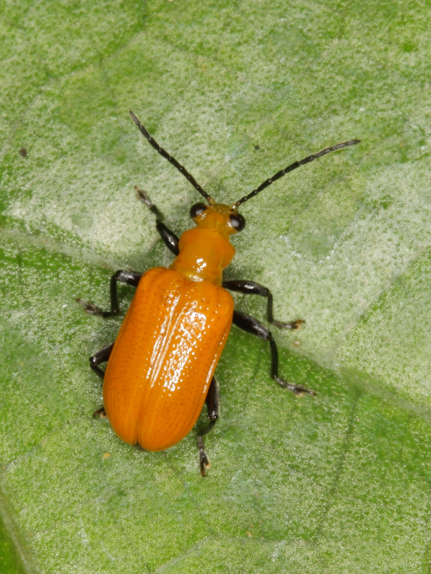 Due to location the species could be: Lilioceris (Chujoita) dromedarius (Baly, 1861) ??? Lilioceris (s. str.) impressa (Fabricius, 1787) ??? review on oriental Lillioceris: Genus: Lilioceris REITTER, 1913 (lily beetle, Lilienhähnchen) [det. Isidro Martínez "Bárbol", 2011, based on this photo] Tribus: Criocerini Subfamily: Criocerinae Family: Chrysomelidae (leafe beetles, Blattkäfer) Superfamily: Chrysomeloidea (Long-horned and Leaf Beetles) Suborder: Polyphaga Order: Coleoptera (beetles, Käfer) Class: Insecta Indonesia, W-Java, Serang, vic. Bulakan: Danau Rawa NP, 120-340m asl., 13.03.2011 IMG_0590